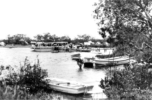 Excursion Lanches, Maroochy River. (The original photograph caption makes reference to N C [North Coast] Line.)